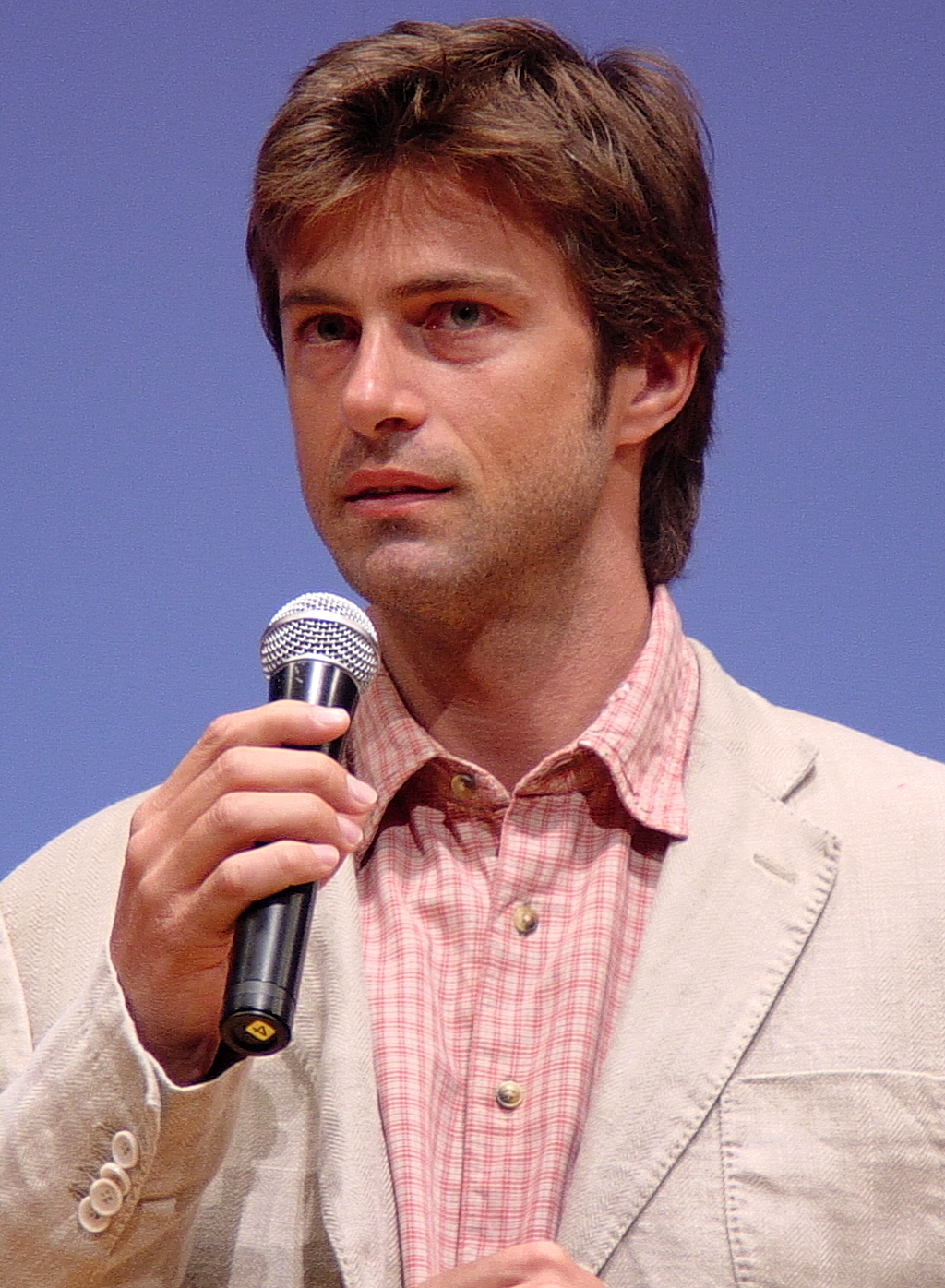 Italian actor and film director Kim Rossi Stuart at the Italian Film Festival in Tokyo, 28 April 2007